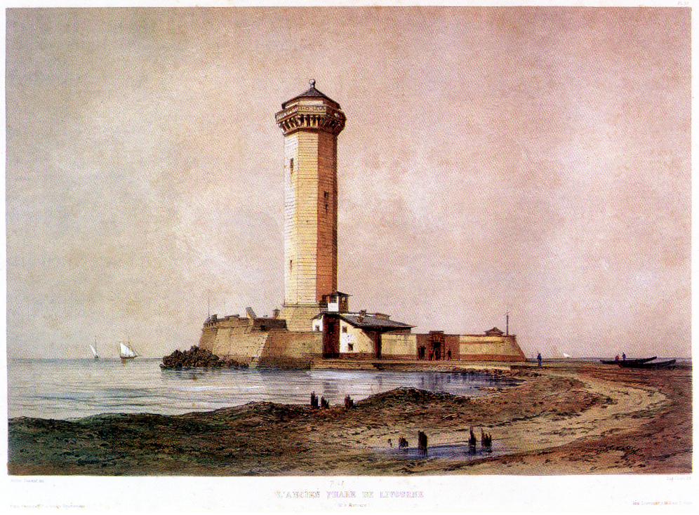 Torre del Marzocco, Port of Livorno, Tuscany, Italy - Coastal tower (15th century) by André Durand, from La Toscane - Album monumental et pittoresque executé sous la direction de M. le Prince Anatole Démidoff. Dessiné d’après nature par André Durand et litographiés avec la collaboration d’Eugène Cicéri. Paris, Lemercier 1863